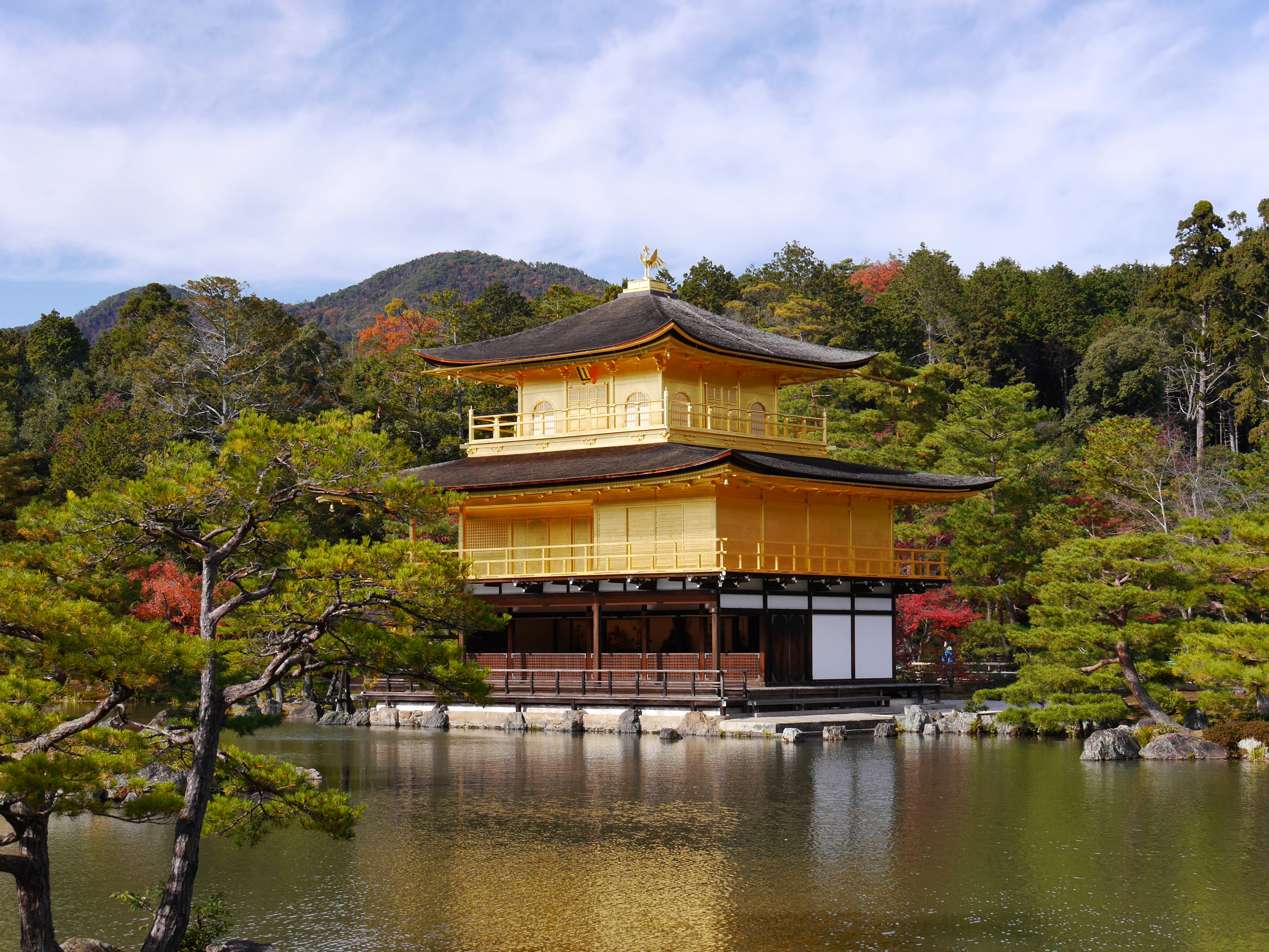 Kinkaku-ji / Golden Temple in Kyoto